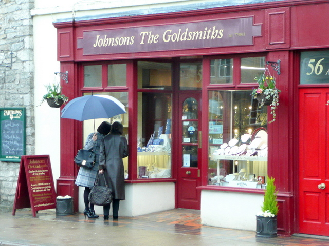 Window shopping in Cowbridge These ladies are making use of the umbrella on a damp March afternoon in Cowbridge.